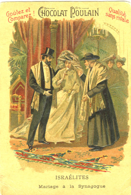 Advertising card for Chocolat Poulain with scene showing a Jewish wedding